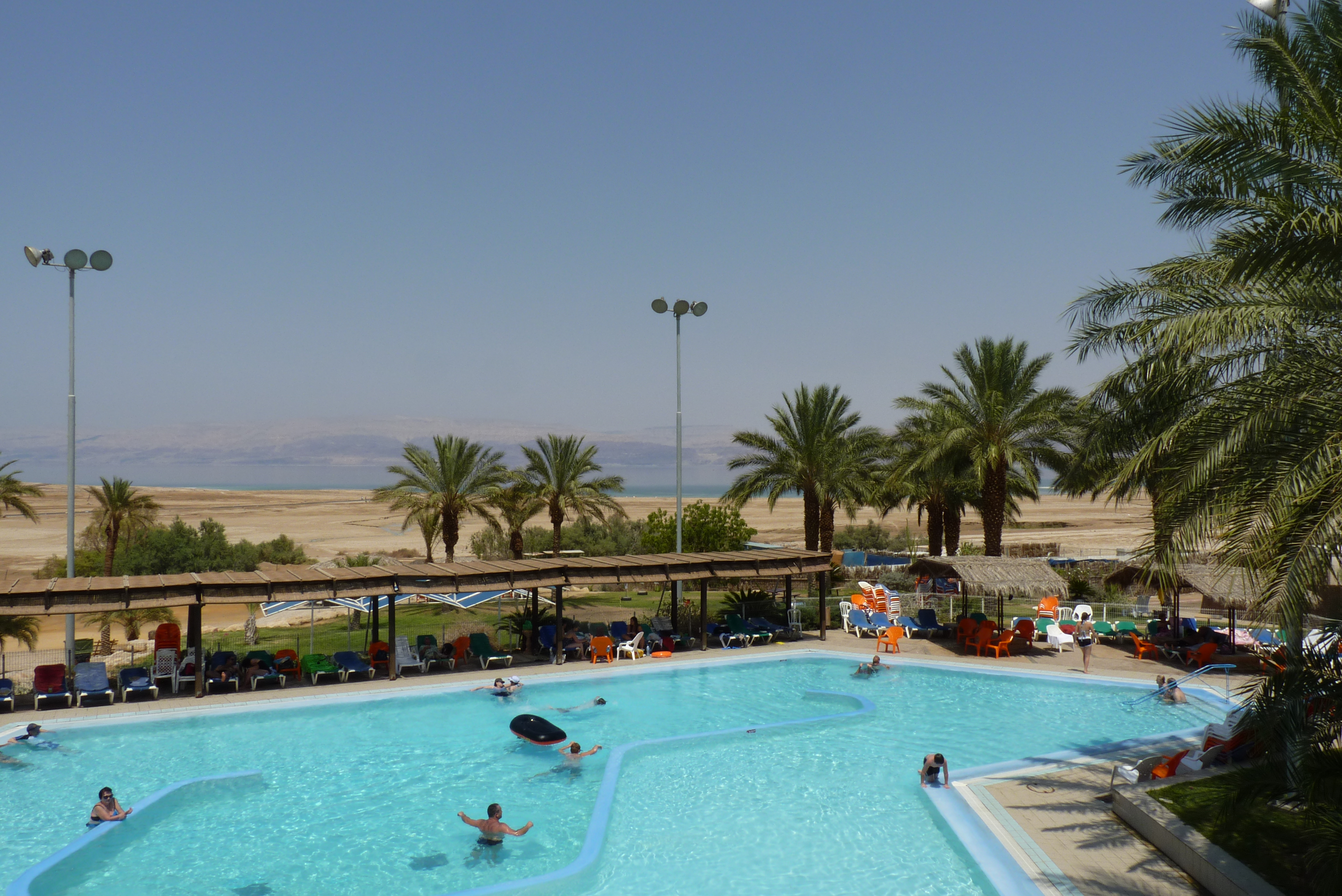 P1110552 Ein Gedi - in the Dead Sea